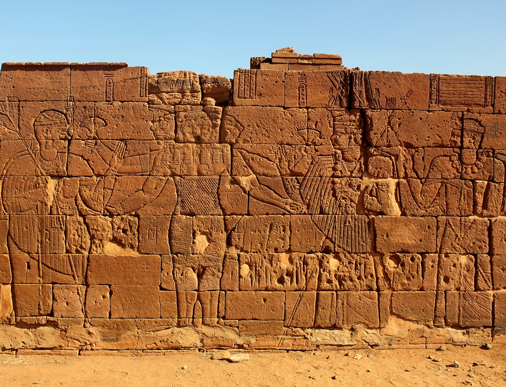 Naqa Lion Temple: Apedemak with 3 lion heads and 4 arms